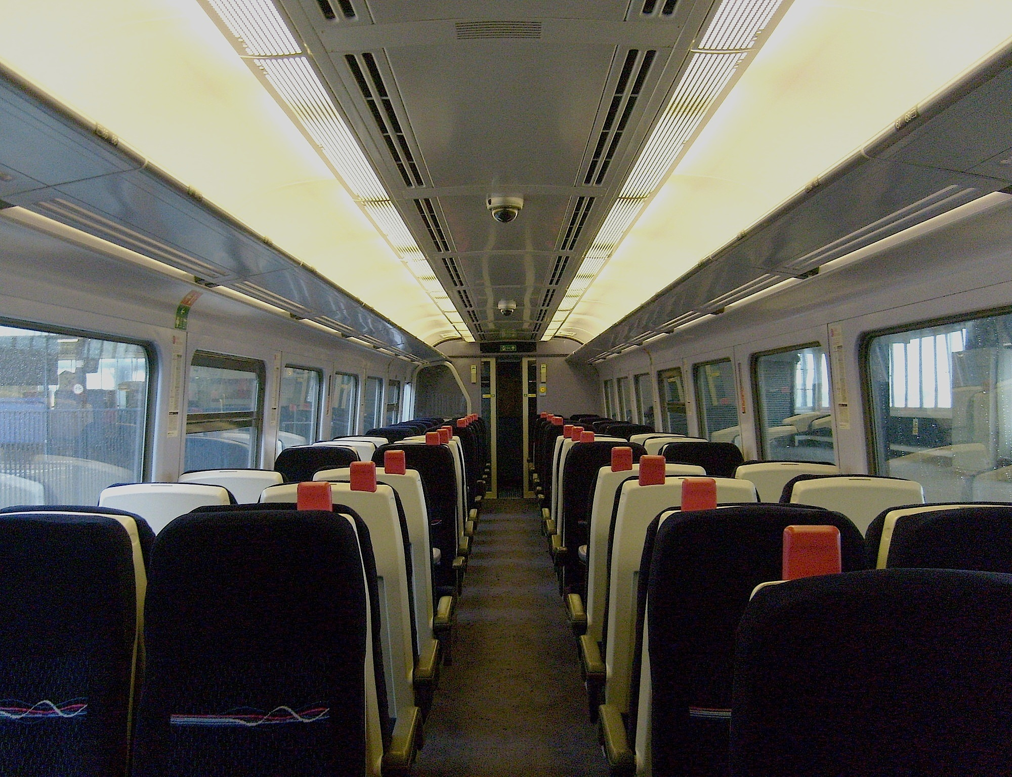 Interior of First Great Western refurbished Class 158 No. 158760